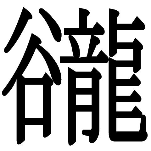 Chinese Charactor O(h)tani